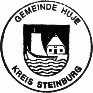 Seal of the municipality Huje in Schleswig-Holstein, Germany